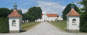 The estate Vosnæs Gods, in Skødstrup near Århus, Denmark